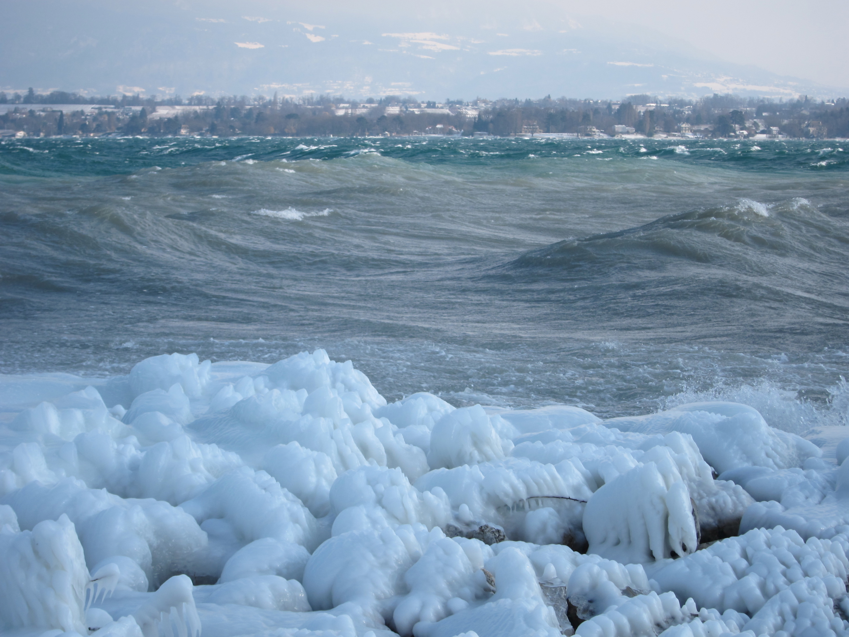 Lac Léman - La bise à Versoix